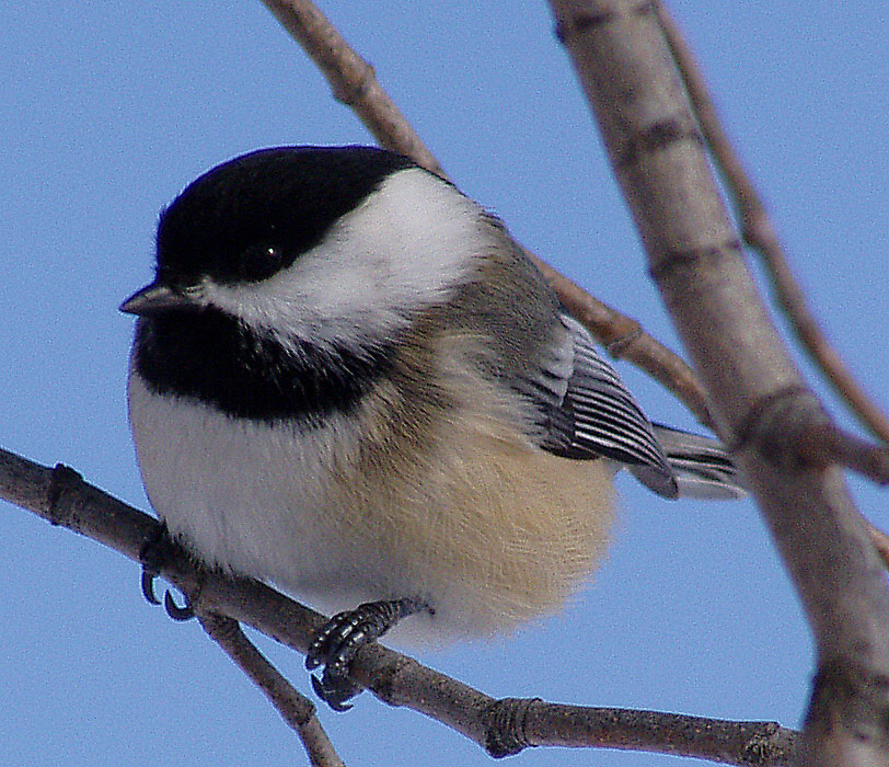 Description: Black-capped Chickadee (Parus atricapillus or Poecile atricapillus) Location: Greater Madawaska Township, Ontario, Canada Date: 2005-12-19 Source: picture taken by Danielle Langlois Licence: Released under GFDL and Creative Commons licenses by the photographer